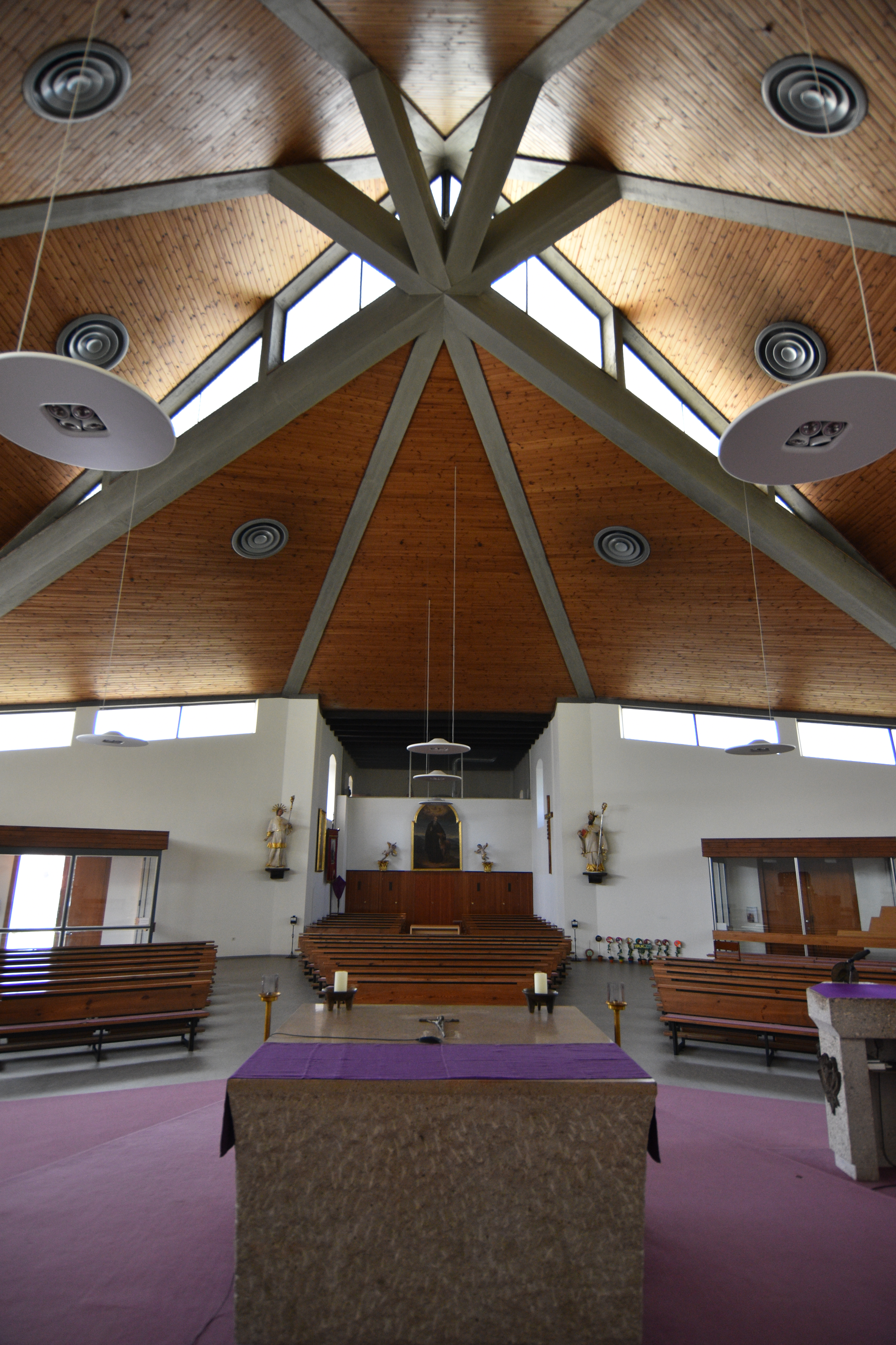 Church Pilgersdorf - Interior